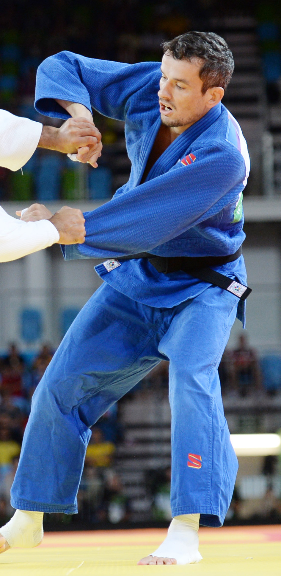 Judo at the 2016 Summer Olympics, Shikhalizade vs Uriarte